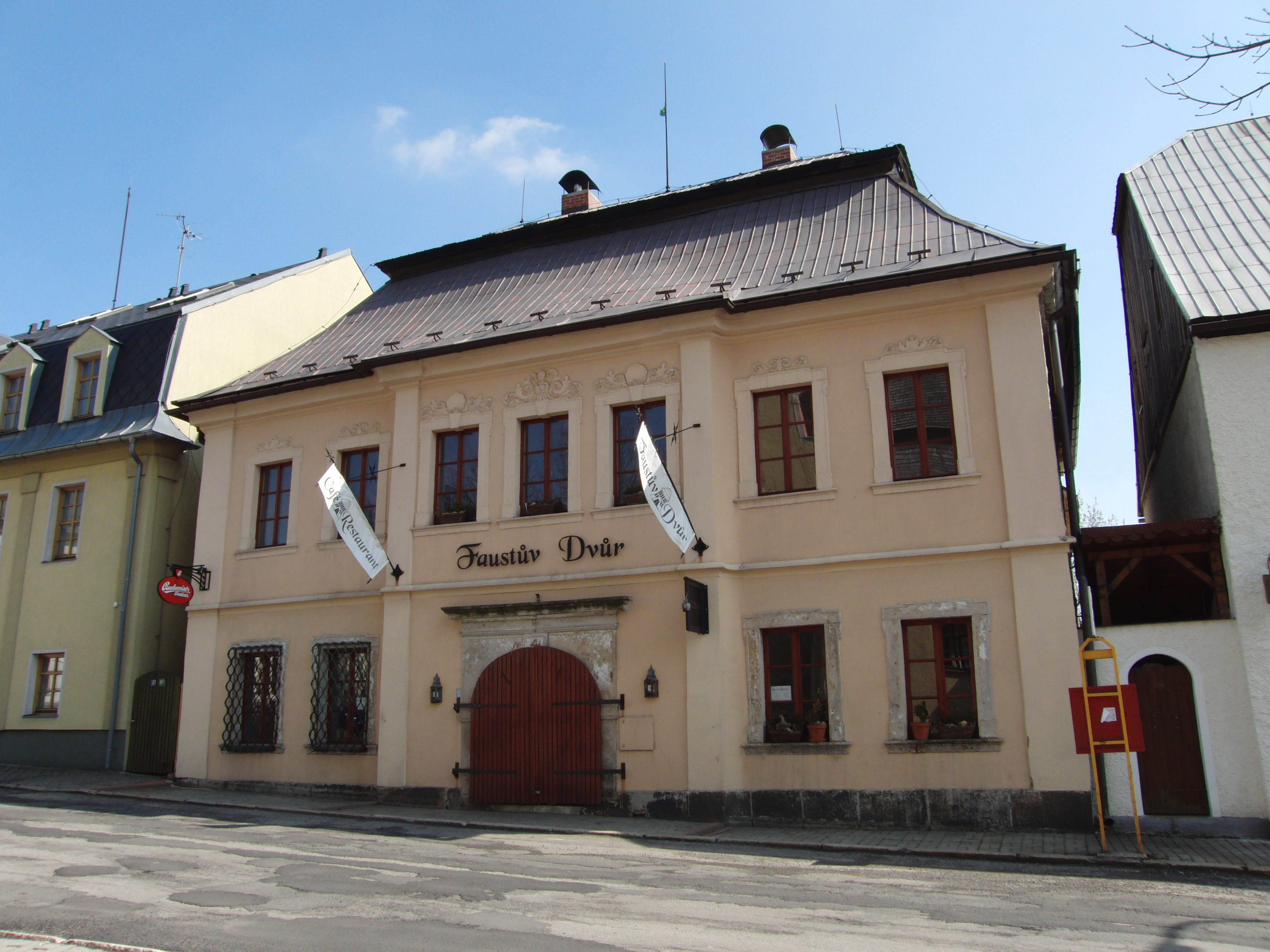 Townhouse Nr.4 in Horní Blatná, cultural monument